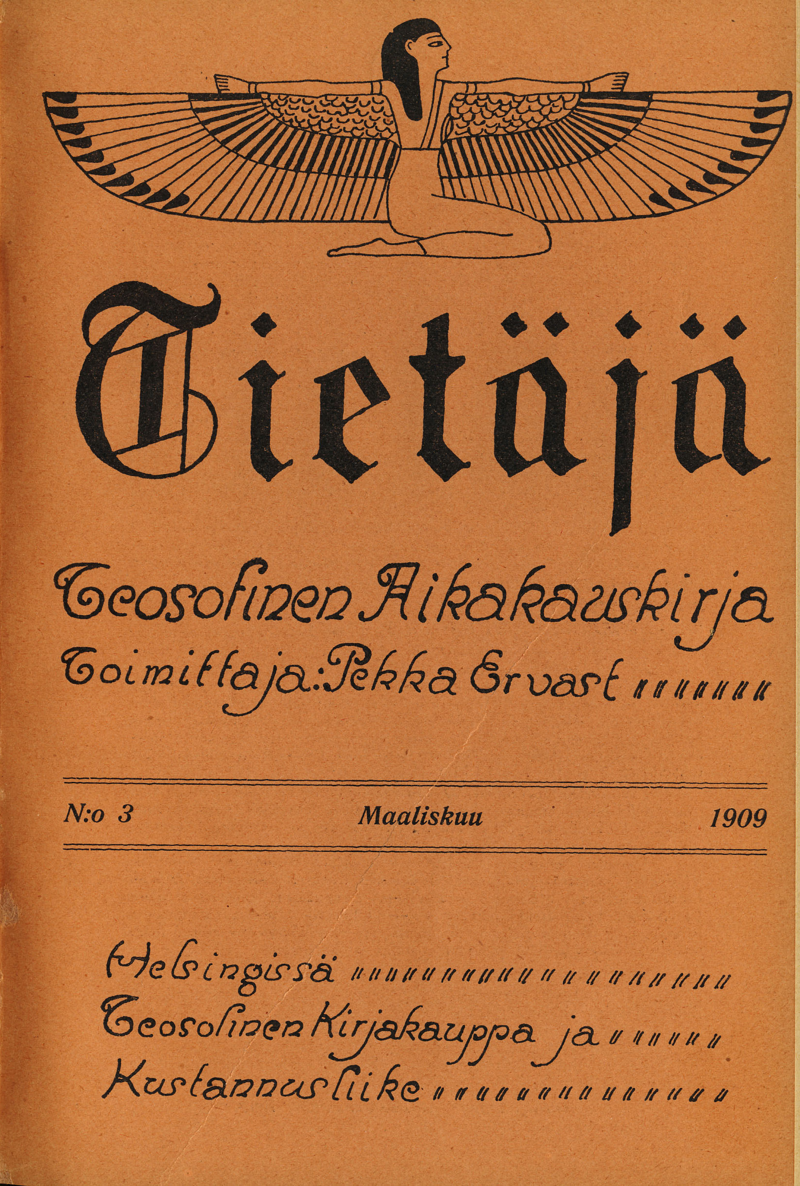 Cover of Tietäjä-magazine